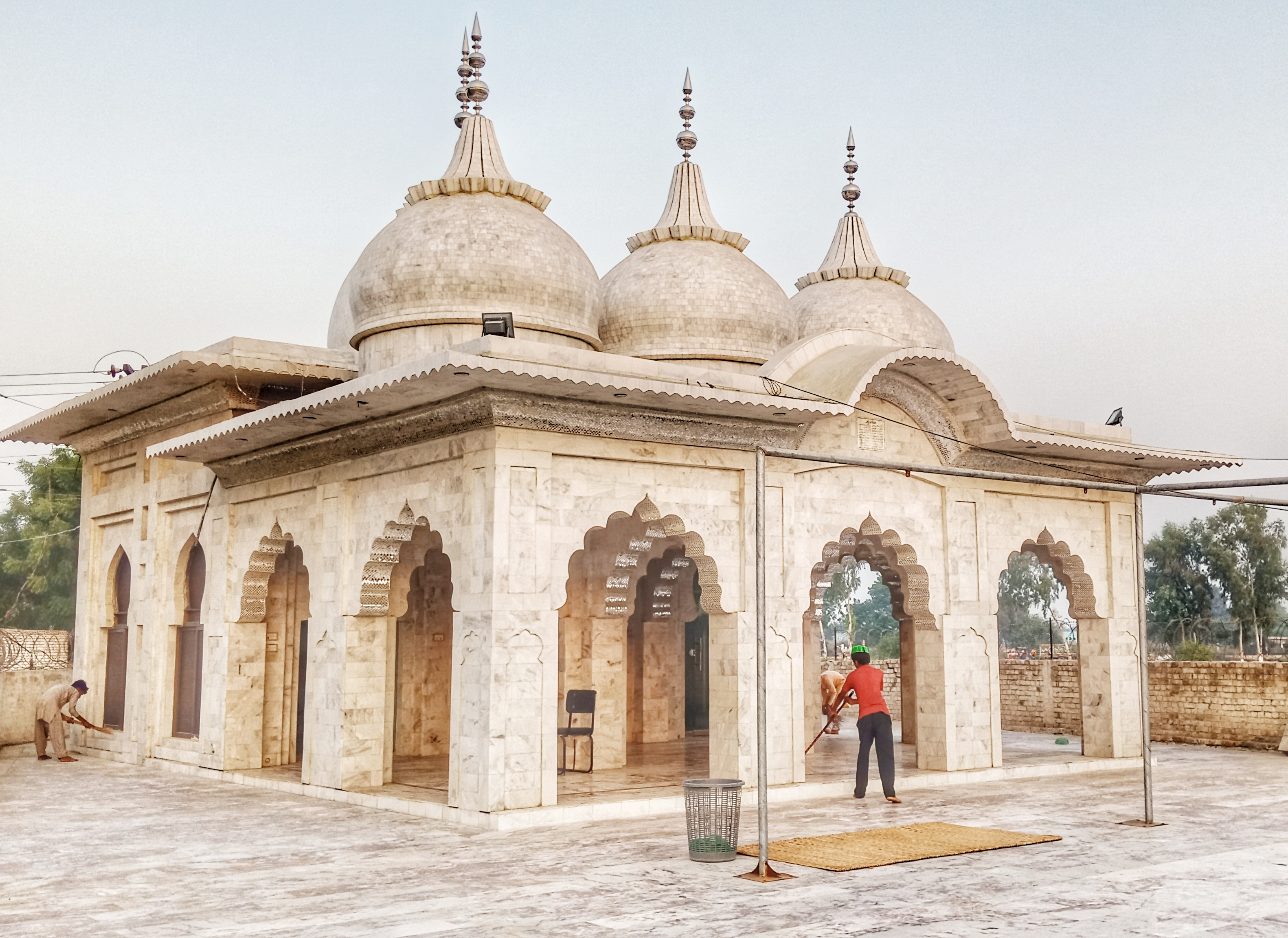 Named after Mian Mumtaz Khan Manika, who had built this Mosque.